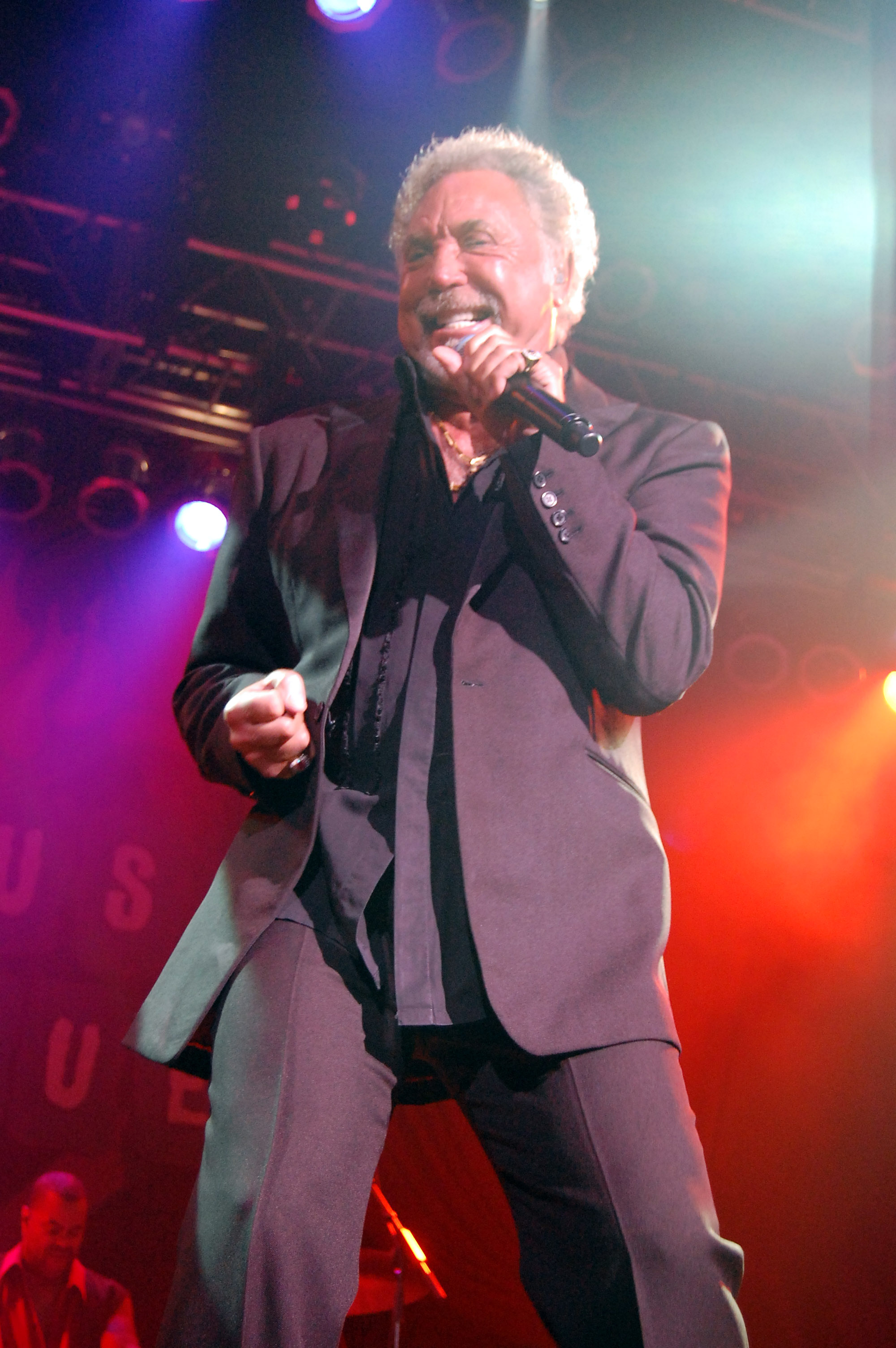 Tom Jones at the House Of Blues, Anaheim, California. 10 March 2009